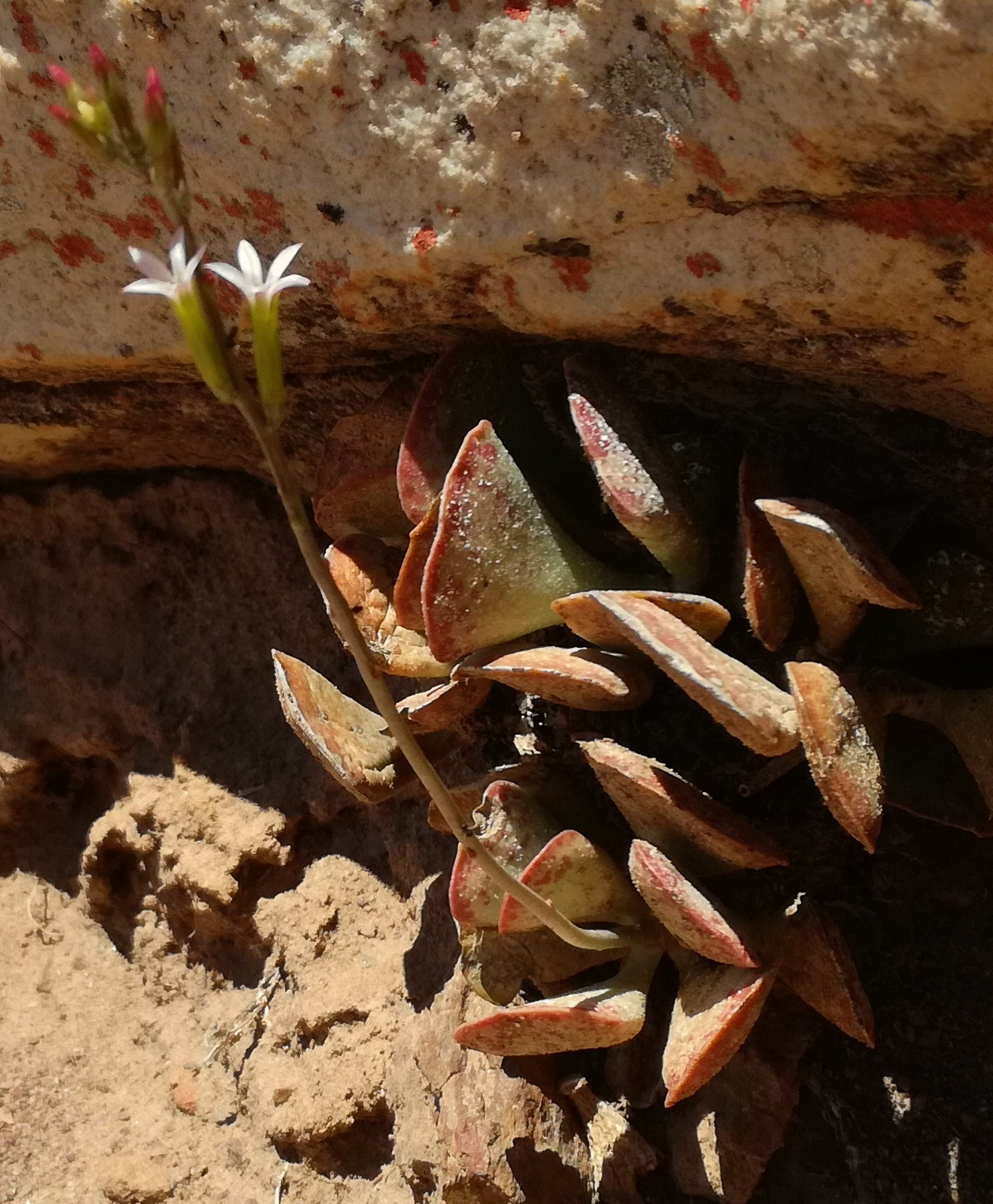 Adromischus triflorus in flower